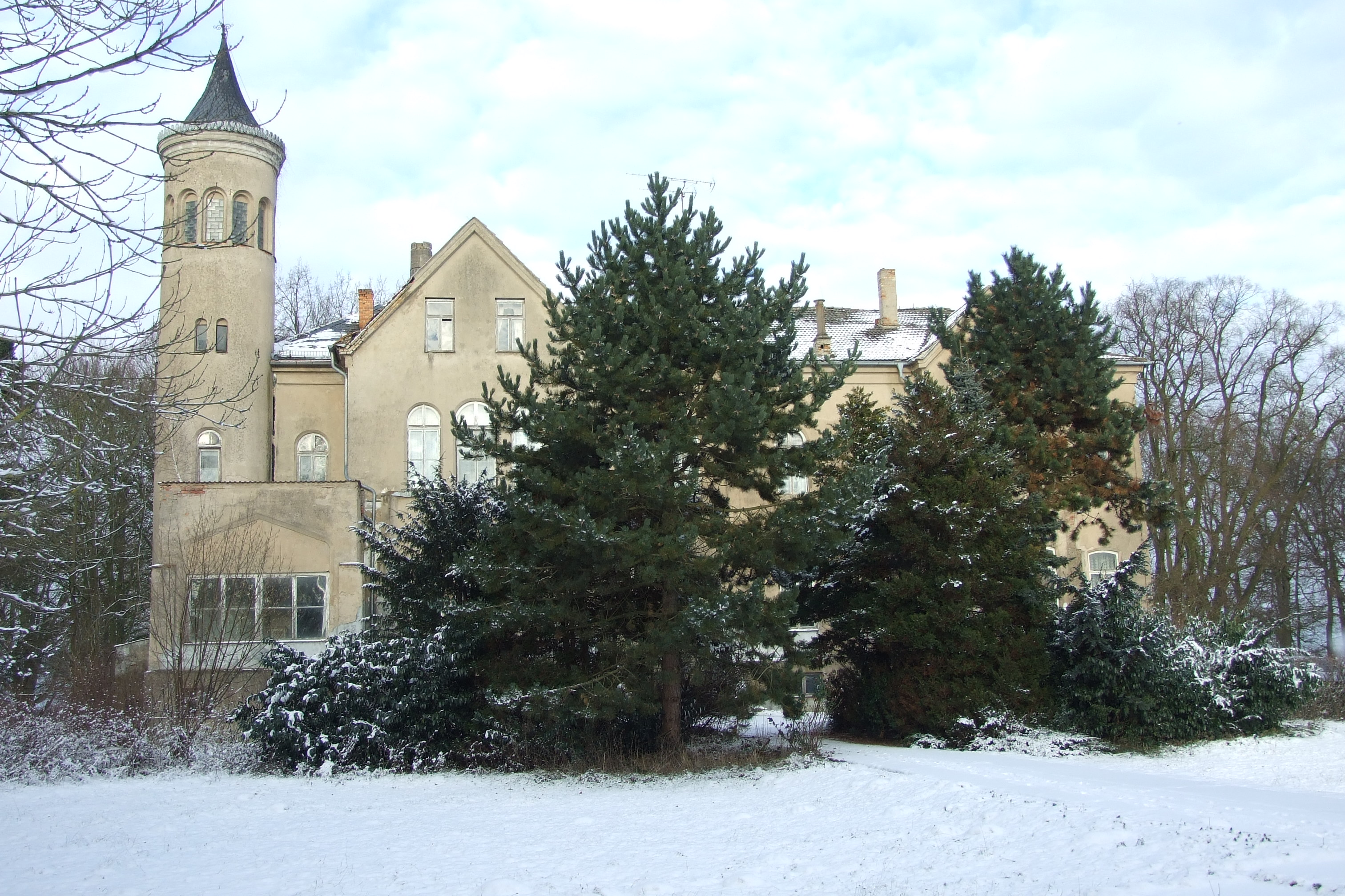 Manor House in Dudendorf